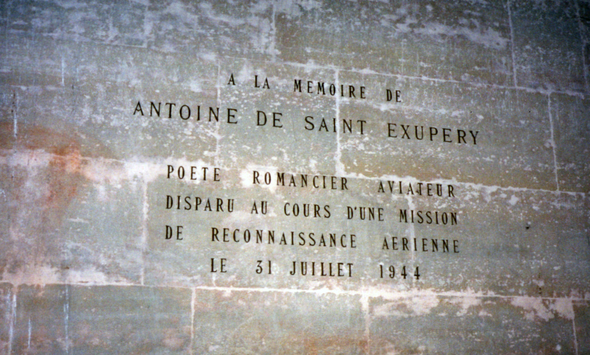 I am in the midst of a walking tour of Paris. This is my first-ever visit to Paris, a city I had always wanted to visit since childhood. On the Left Bank, what had been intended to become the St. Genevieve Cathedral eventually ended up morphing into a more humanistic tribute to France's national heroes in the wake of the 1789 Revolution. The Panthéon is the final resting place for some of France's greatest personalities, such as Voltaire and Rousseau. Antoine de Saint-Éxupery, a poet/novelist best known for Le Petit Prince (Little Prince), is not laid to rest here, however. He disappeared during a World War II reconnaissance flight on 31 July 1944 and was never found again. But he is nevertheless a great Frenchman worth remembering; in fact, he (and a sketch of a boa constrictor that had swallowed an elephant, a key element of Le Petit Prince) adorned the 50-franc banknote until the franc was retired in 2002.